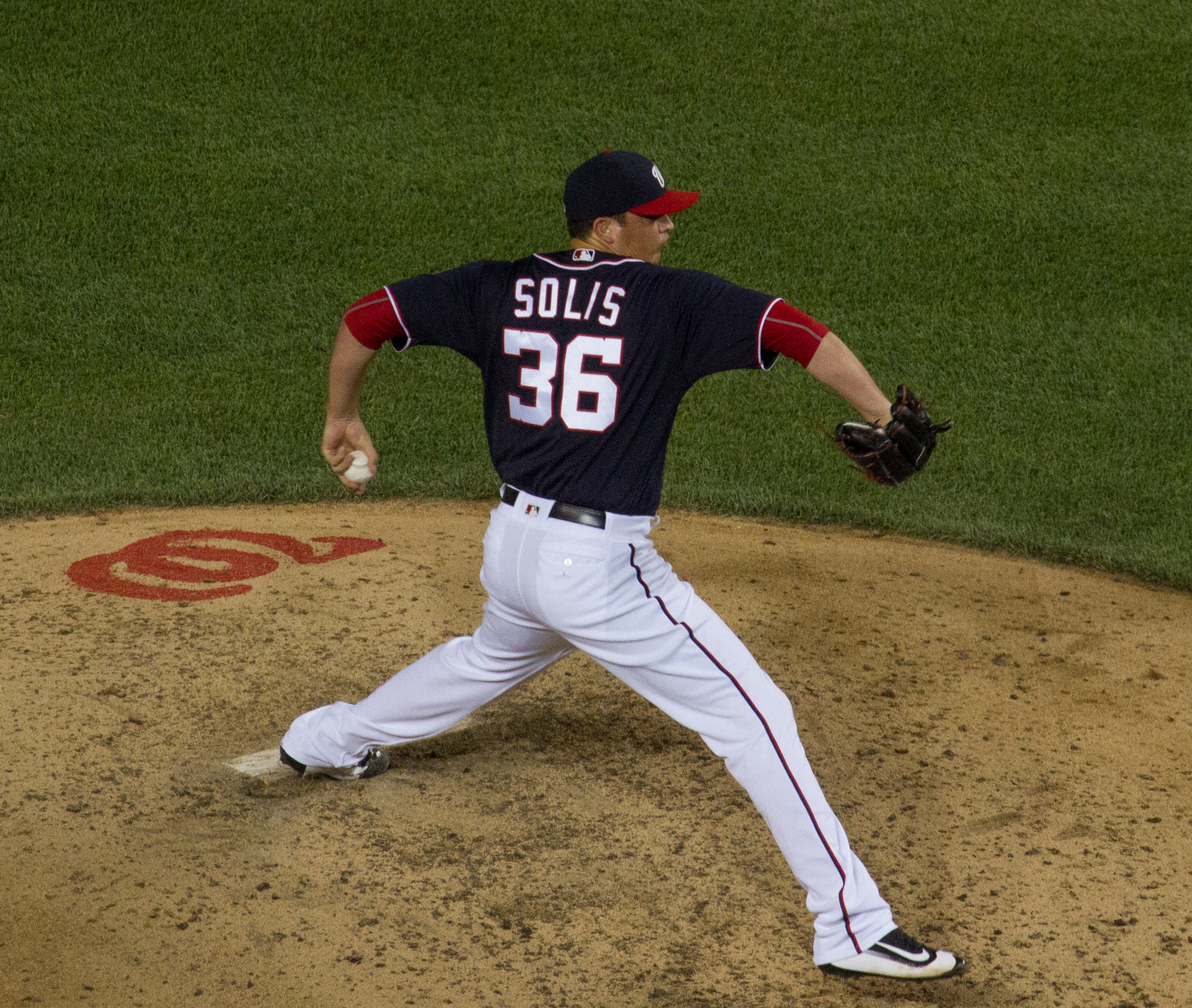 Sammy Solís delivers a pitch for the Washington Nationals at Nationals Park in 2016.